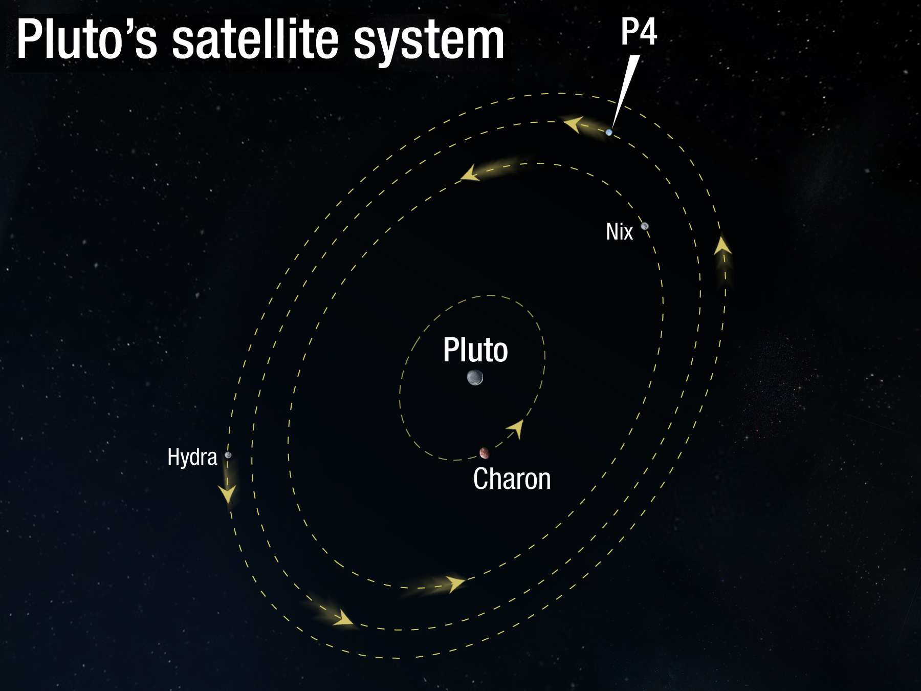 Diagram showing the orbits of four of the moons of Pluto.